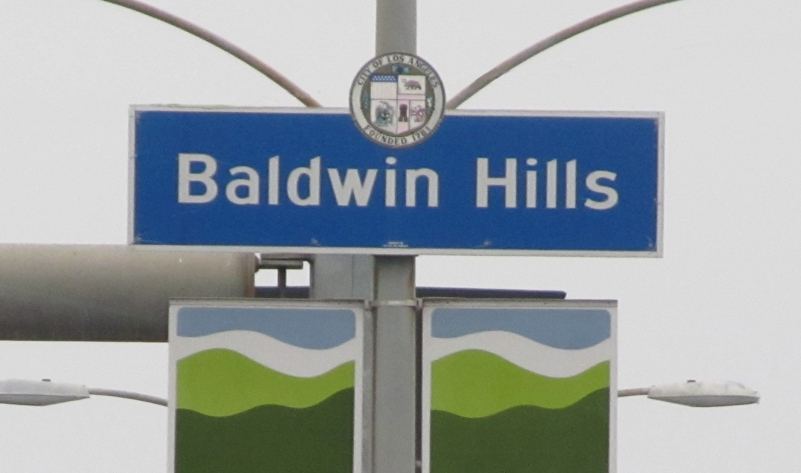 Baldwin Hills City Signage located at La Brea Avenue and Stocker Street.